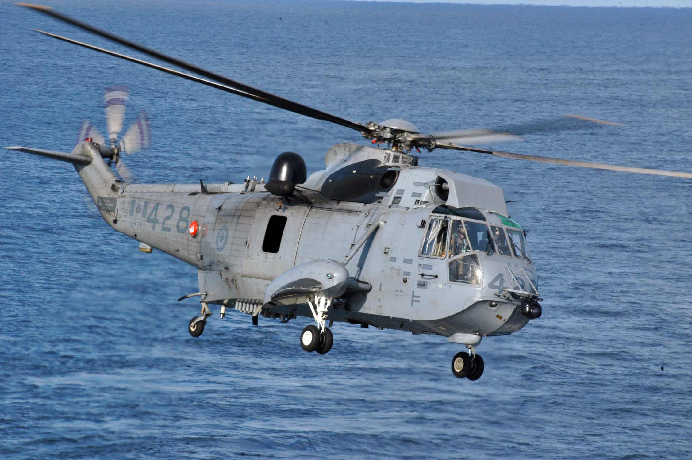 PACIFIC OCEAN (Sept. 2, 2007) A Canadian CH-124 Sea King performs deck landing qualifications on board dock landing ship USS Pearl Harbor (LSD 52) during PANAMAX 2007. PANAMAX 2007 is a joint and multinational training exercise tailored to the defense of the Panama Canal, involving civil and military forces from the region. U.S. Navy photo by Lt. j.g. Brett Dawson (RELEASED)